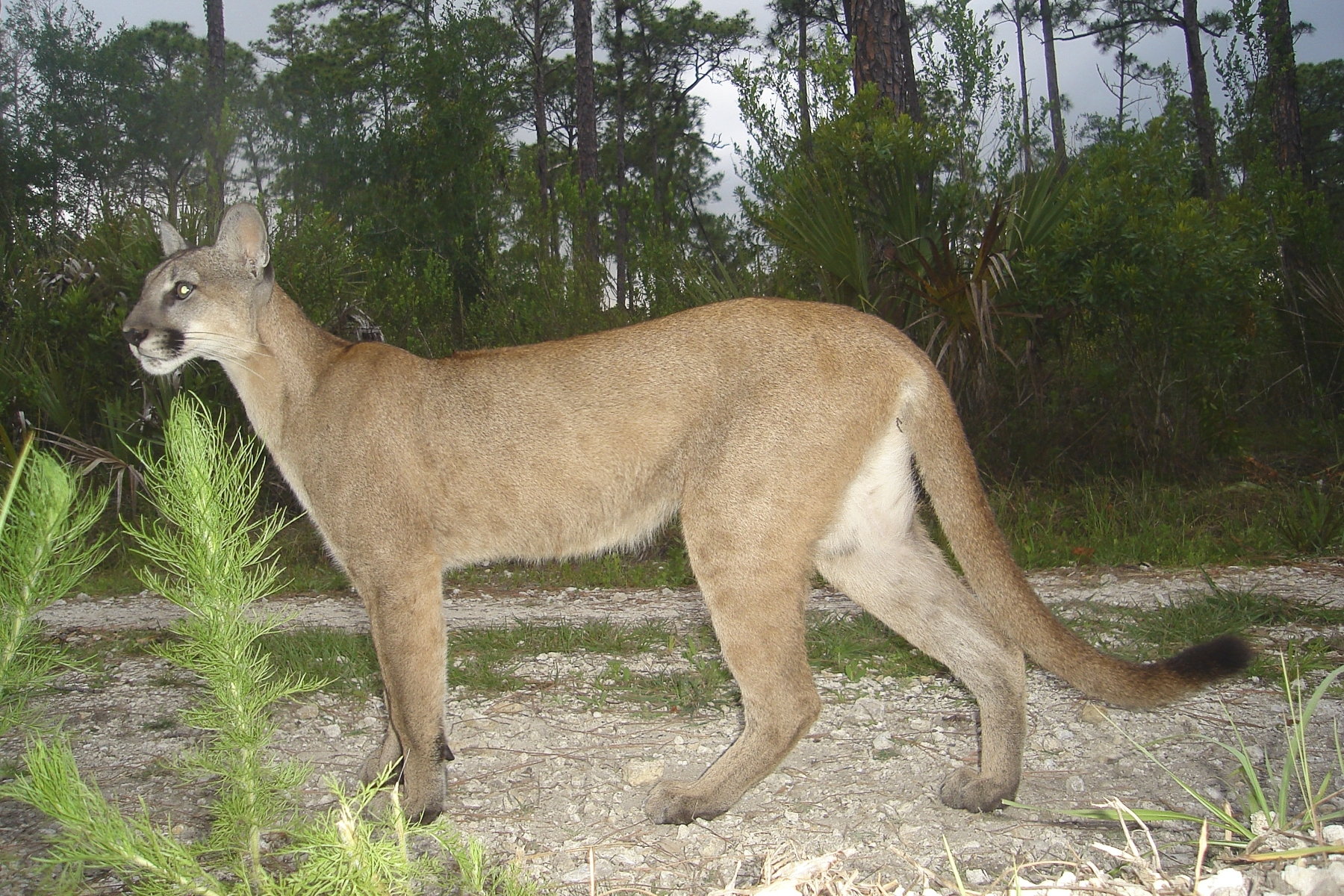 Credit: Larry W. Richardson/USFWS